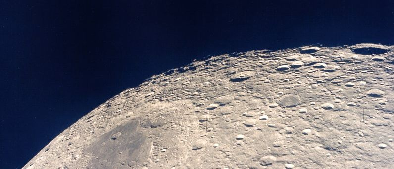 Oblique view of the lunar farside. Scan by Kipp Teague.